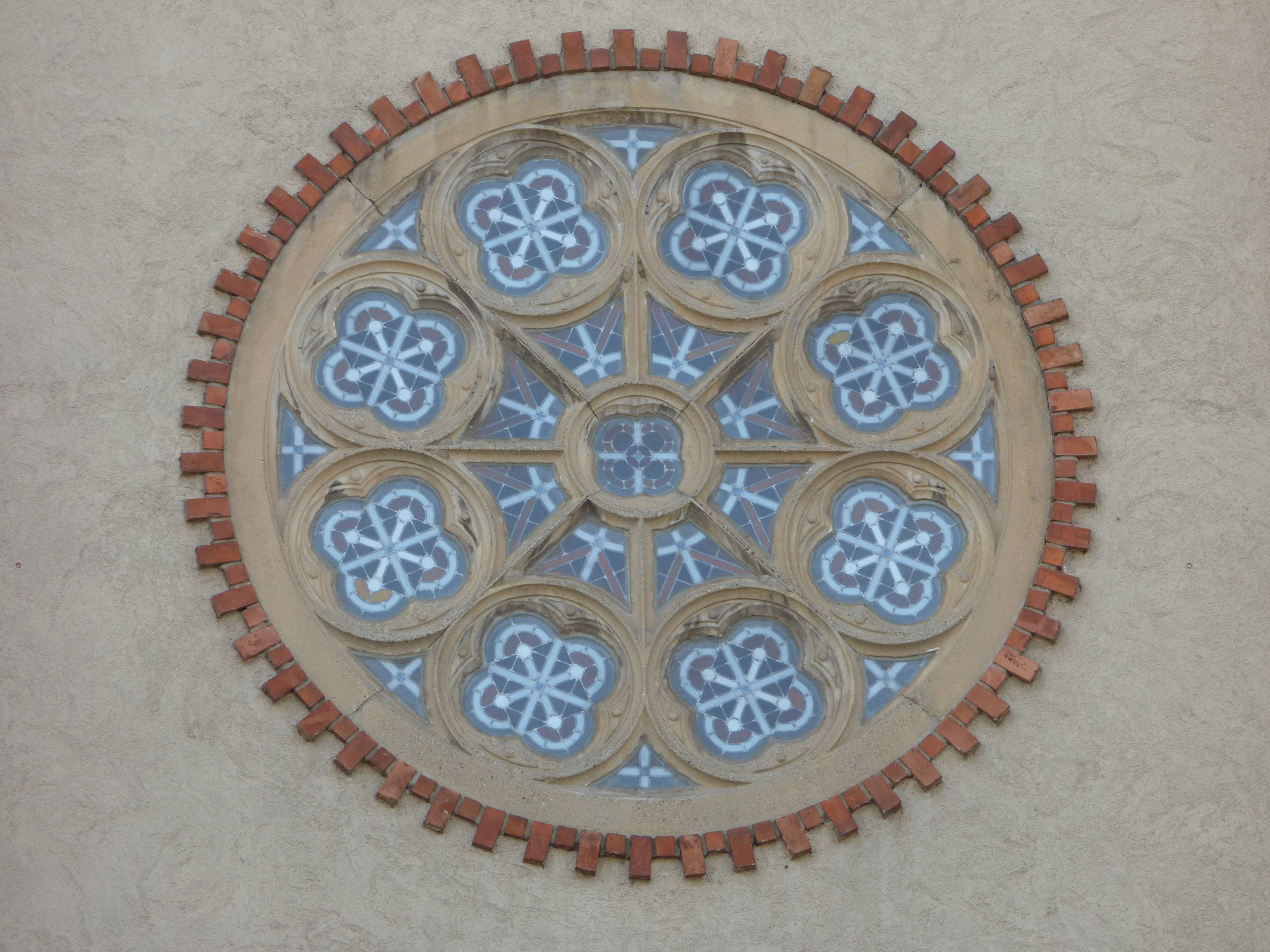 Dunaharaszti, a templom főhomlokzati díszablaka